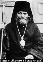 Bishop Maxim (Ruberovsky)